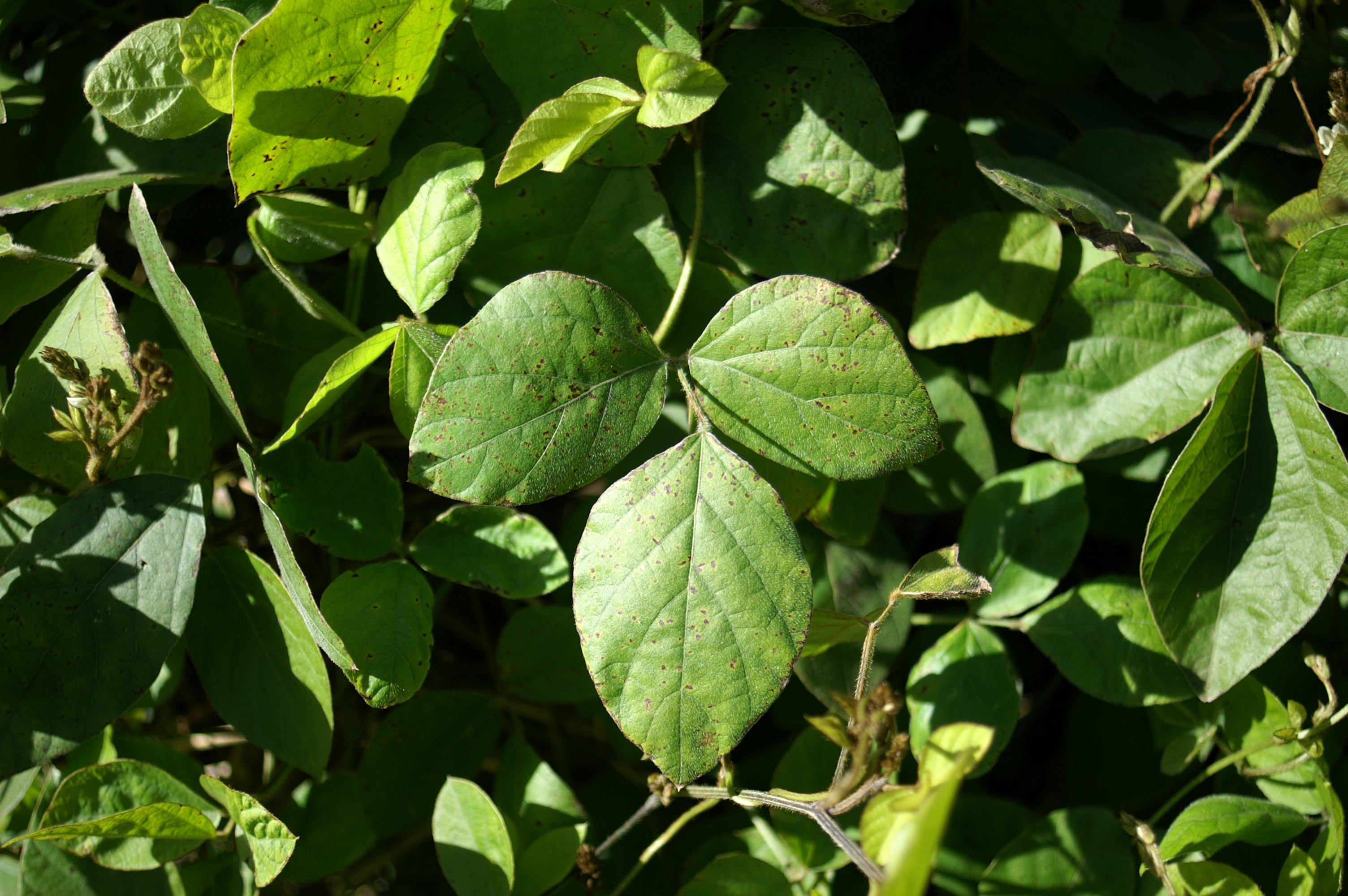 Leaves have 3 elliptical to diamond-shaped leaflets, each 1.5-15 cm long and hairless to velvety. The stalk of central leaflet is longer than the two lateral ones.